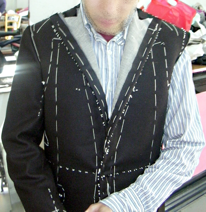 Tailoring: first fit of a jacket. The jacket is two-button, peaked lapels, double vented, black wool.